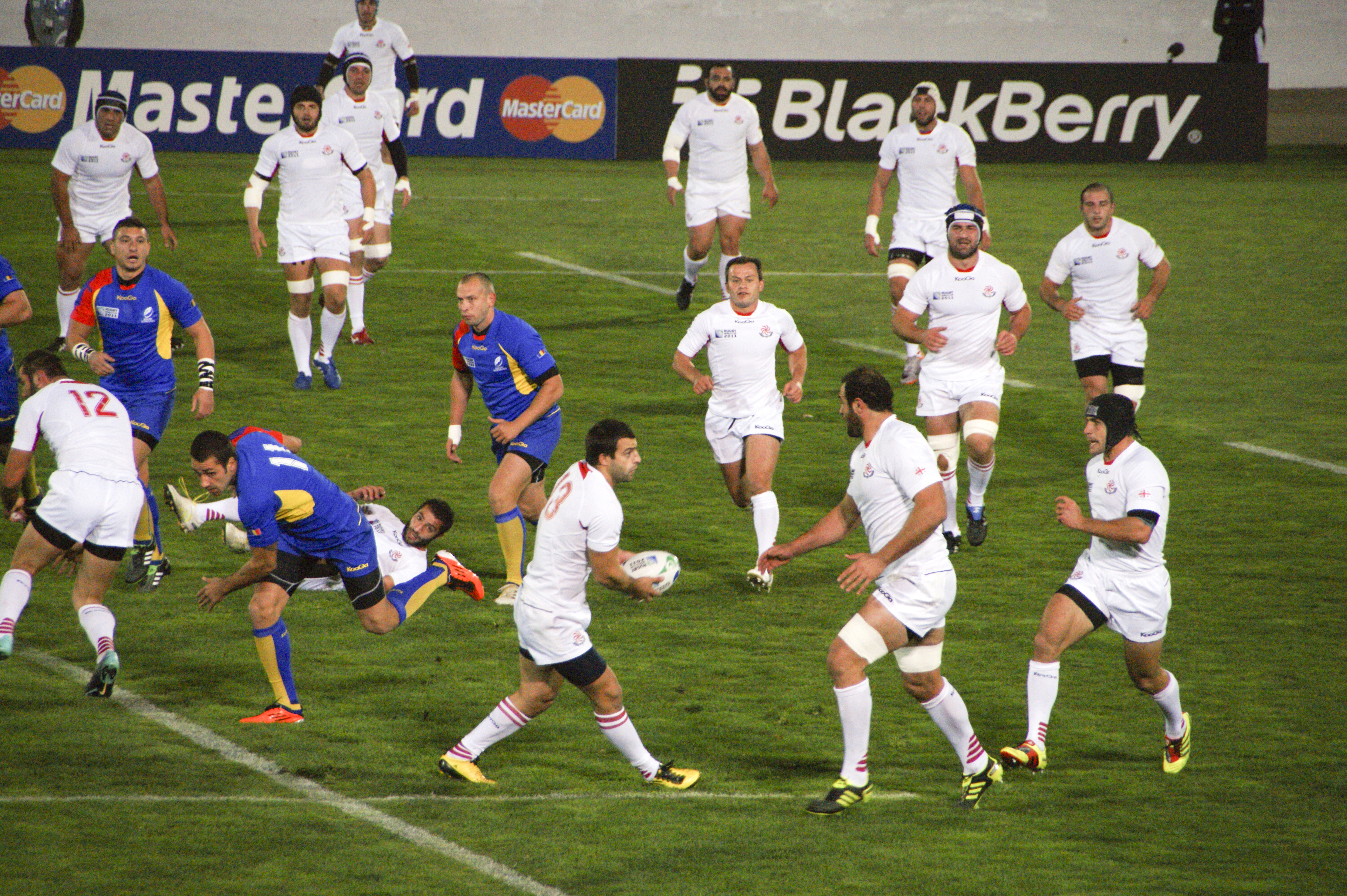 Match between Georgia vs Romania during 2011 Rugby World Cup in New Zealand.